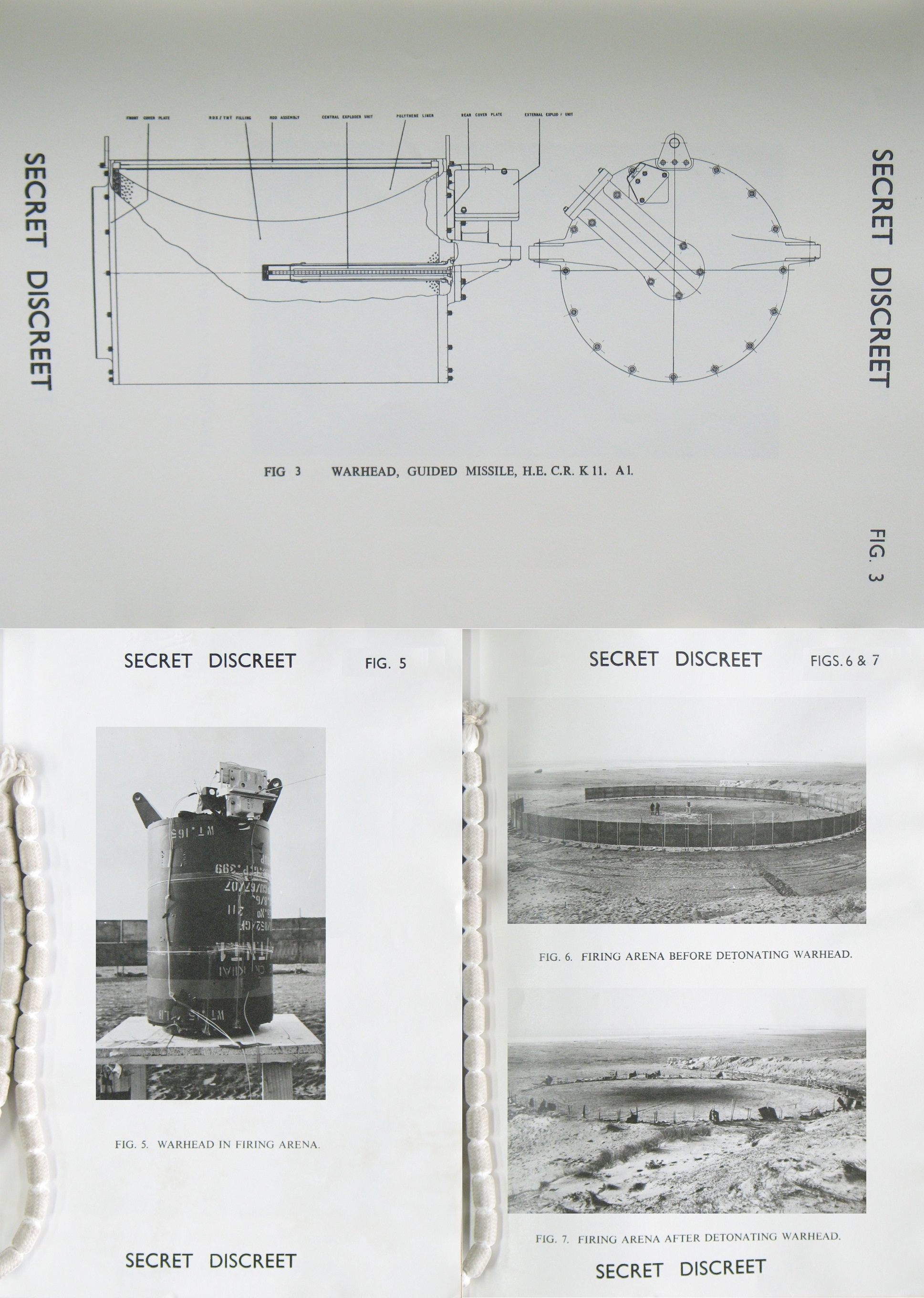 This montage of photographs is of a trials report on the K11A1 continuous rod warhead intended for the Bristol Bloodhound Mk.2 surface-to-air (SAM) missile. The report is dated 1964 was created by the UK Royal Armament Research & Development Establishment, Fort Halstead and published in DEFE 15/2399 is available to view in The National Archives, Kew, London. The image has been stitched together from three pages in the report. It shows before-and-after images of the destruction pattern after detonation. The National Archives file is no longer classified and is in the public domain. UK Crown Copyright expired after 50 years.